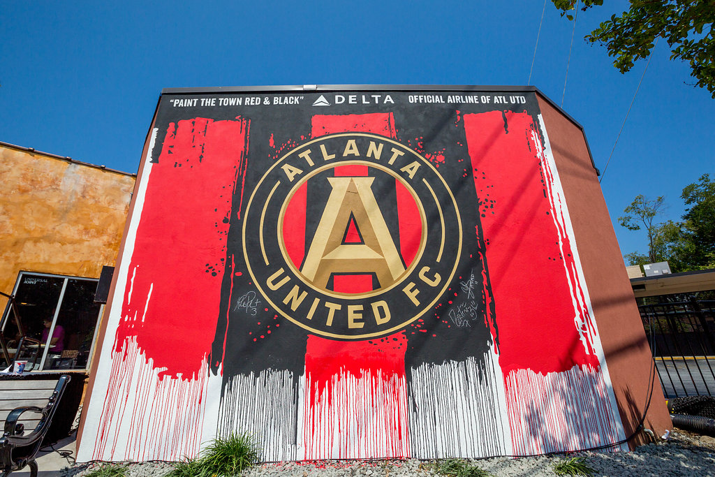 During the Delta and Atlanta United Wallscape Unveiling in Decatur, Georgia, Monday, August 21, 2017